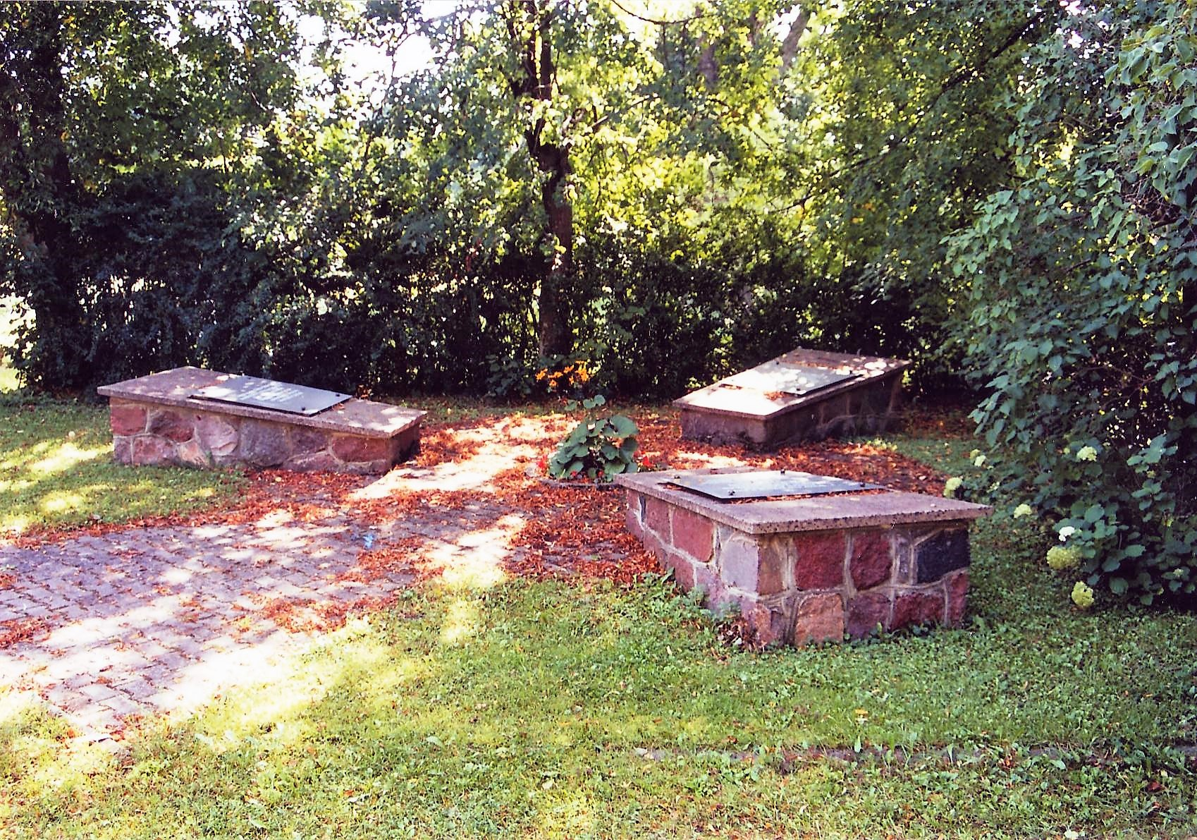 Monument commemorating the victims of the Soviet regime, Darbenai, Kretinga district, LithuaniaLietuvių: Sovietmečio aukų atminimo vieta Darbėnuose, Kretingos rajonas, Lietuva